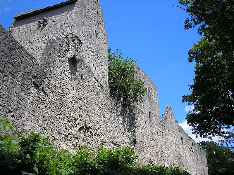 Salzburg castle near Bad Neustadt (Landkreis Rhön-Grabfeld, Lower Franconia, Germany). The southern part of the castle, looking east